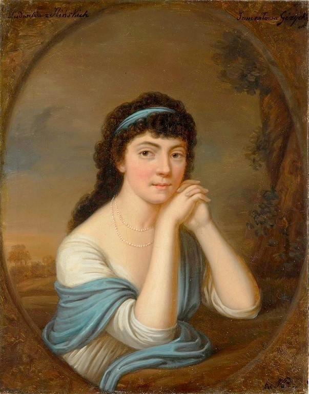 Ludwika Giżycka